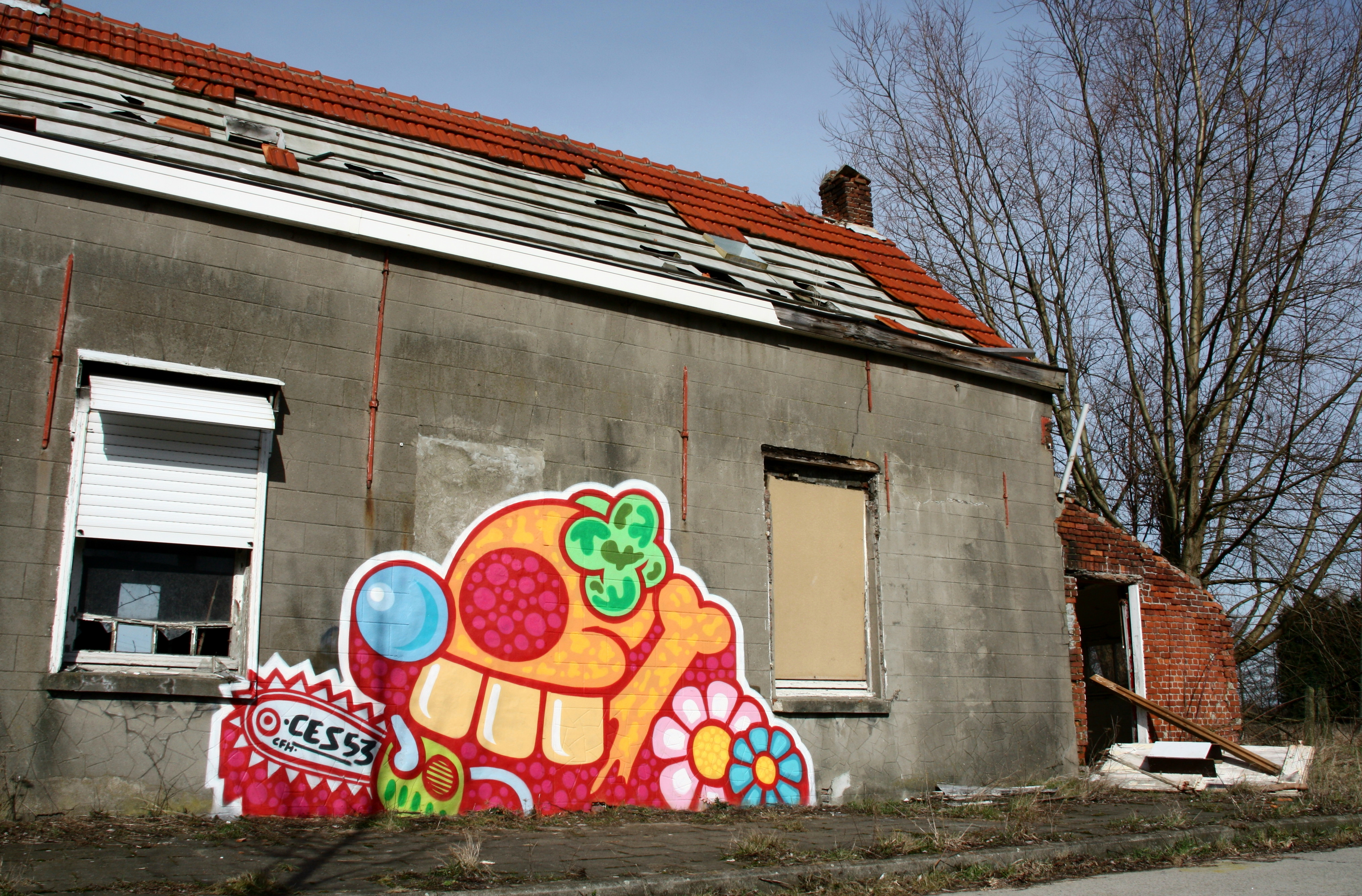 Streetart painting by Ces53 in Doel,Belgium,a ghost town serving as streetart canvas.